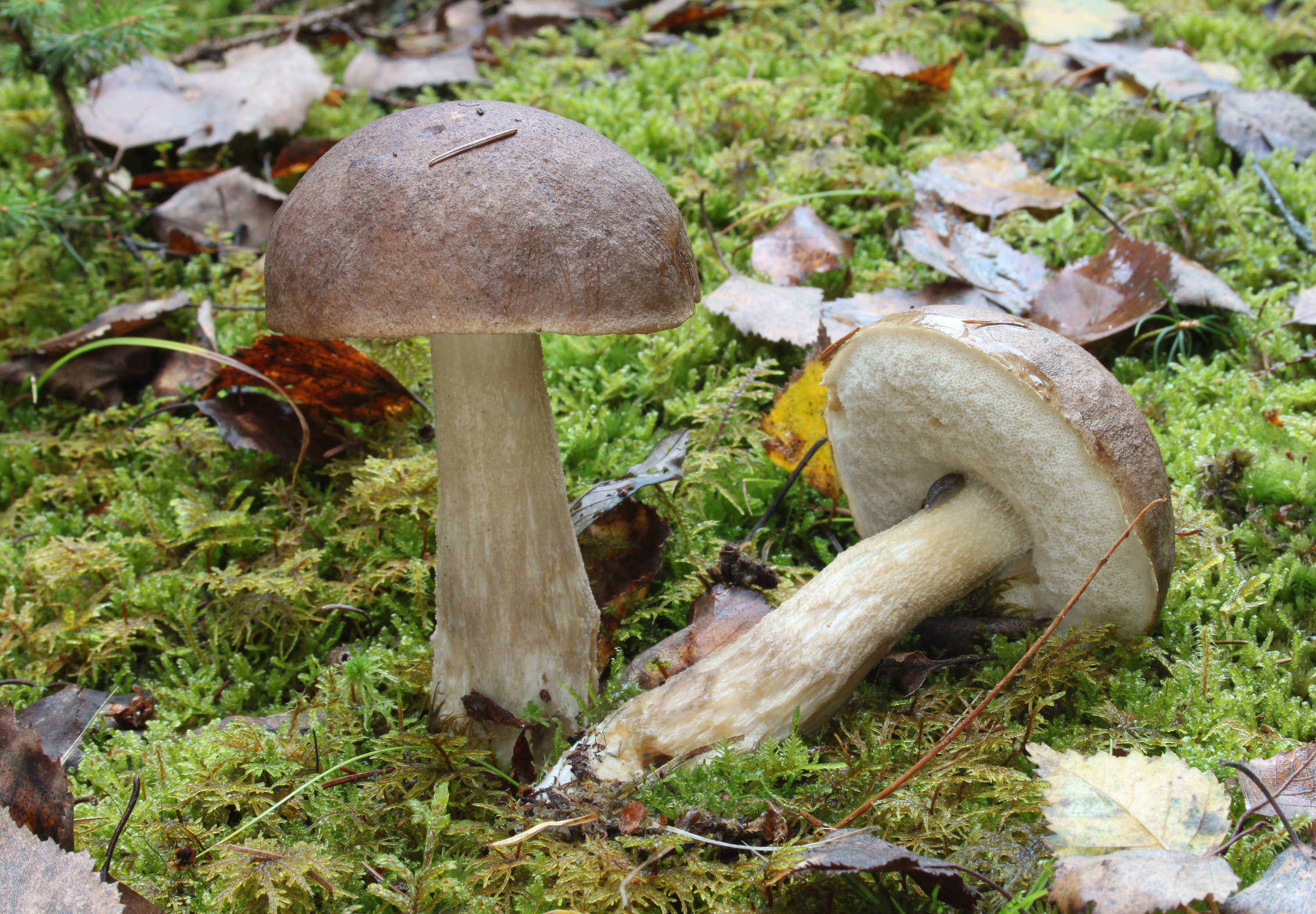 Leccinum cyaneobasileucum, Family: Boletaceae, Location: Germany, Biberach an der Riss, Ummendorf